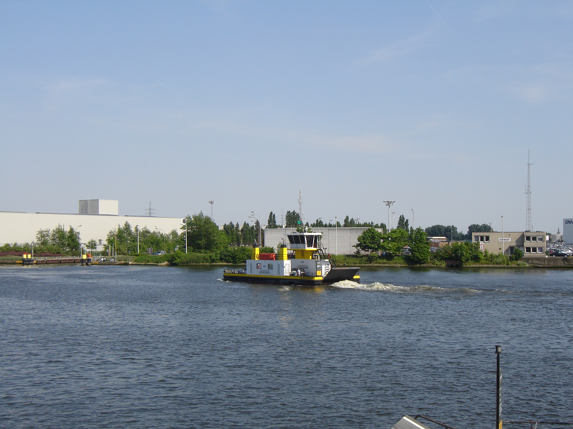 Ferry boat Lieven Bauwens for the Langerbrugge ferry service across the gent-terneuzen canal. Seen from the canal bank on the Langerbrugge (Evergem) side. Gent, East Flanders, Belgium.